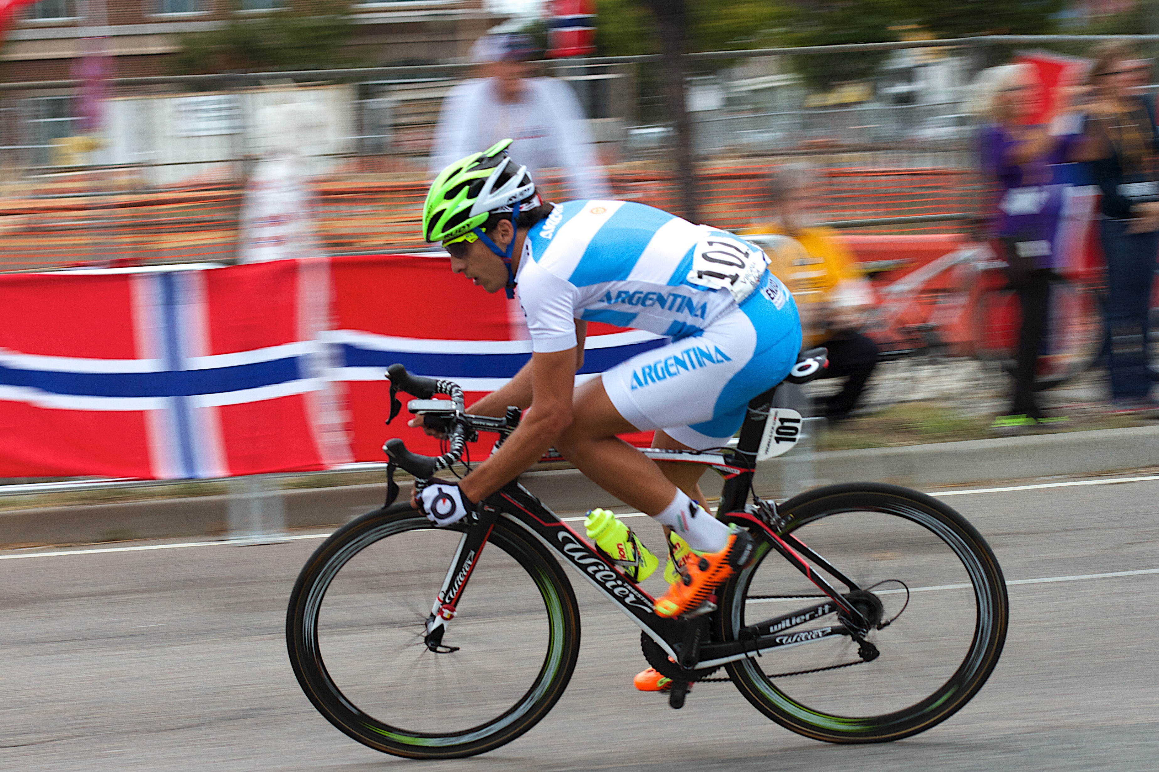 UCI Road Championship Races, Richmond VA 2015 UCI Road World Championships, in Richmond, United States, men's under-23 road race